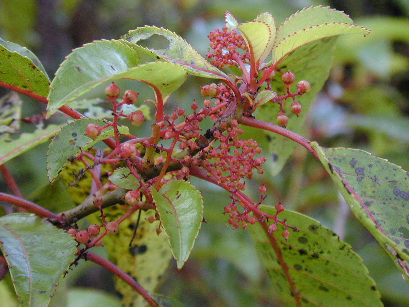 Perrottetia sandwicensis (fruits). Location: Maui, Waihee Ridge Trail